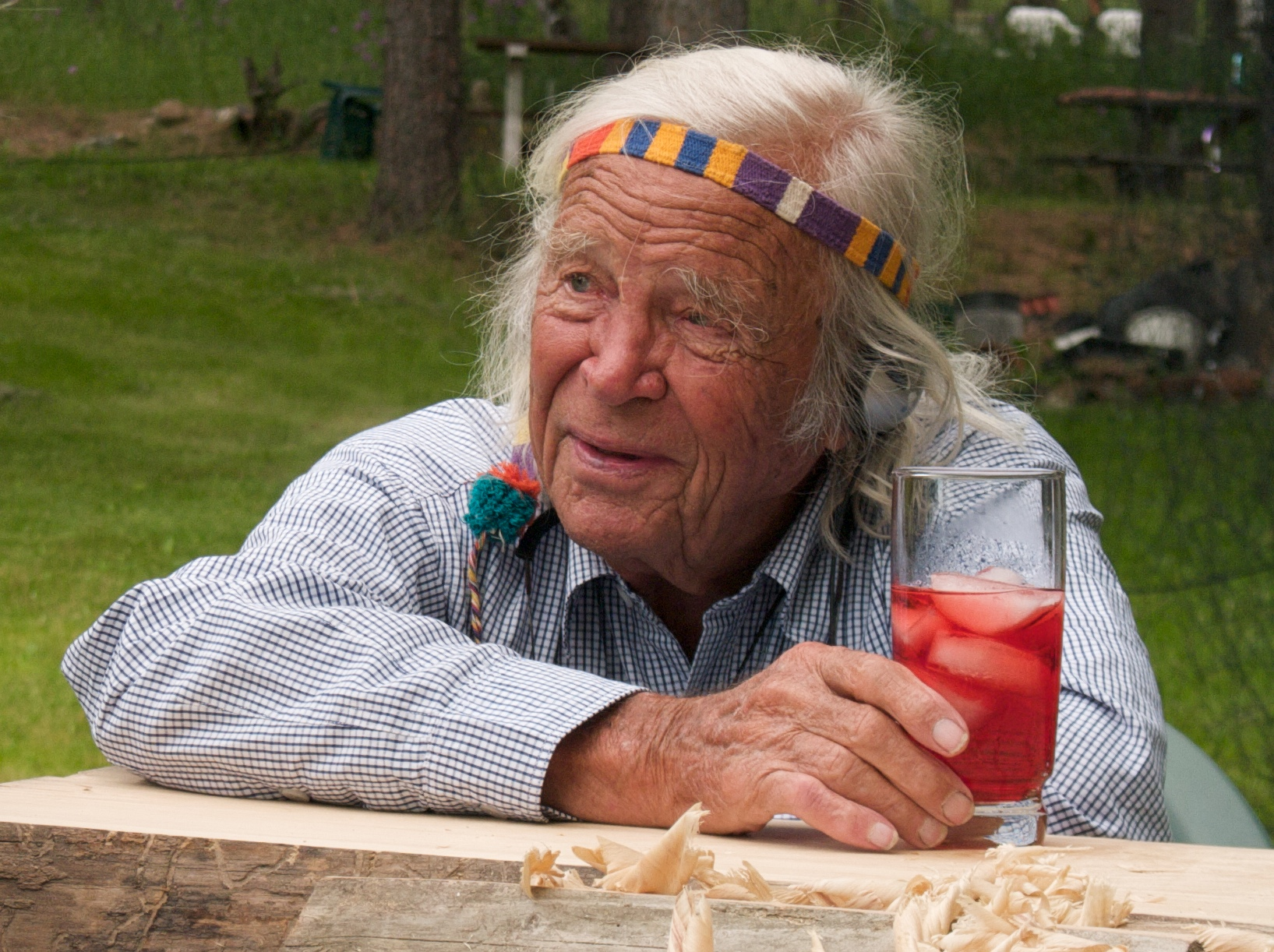 John J. Craighead, conservationist